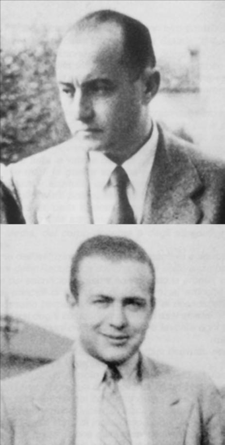 Paolo and Bruno Brancondi